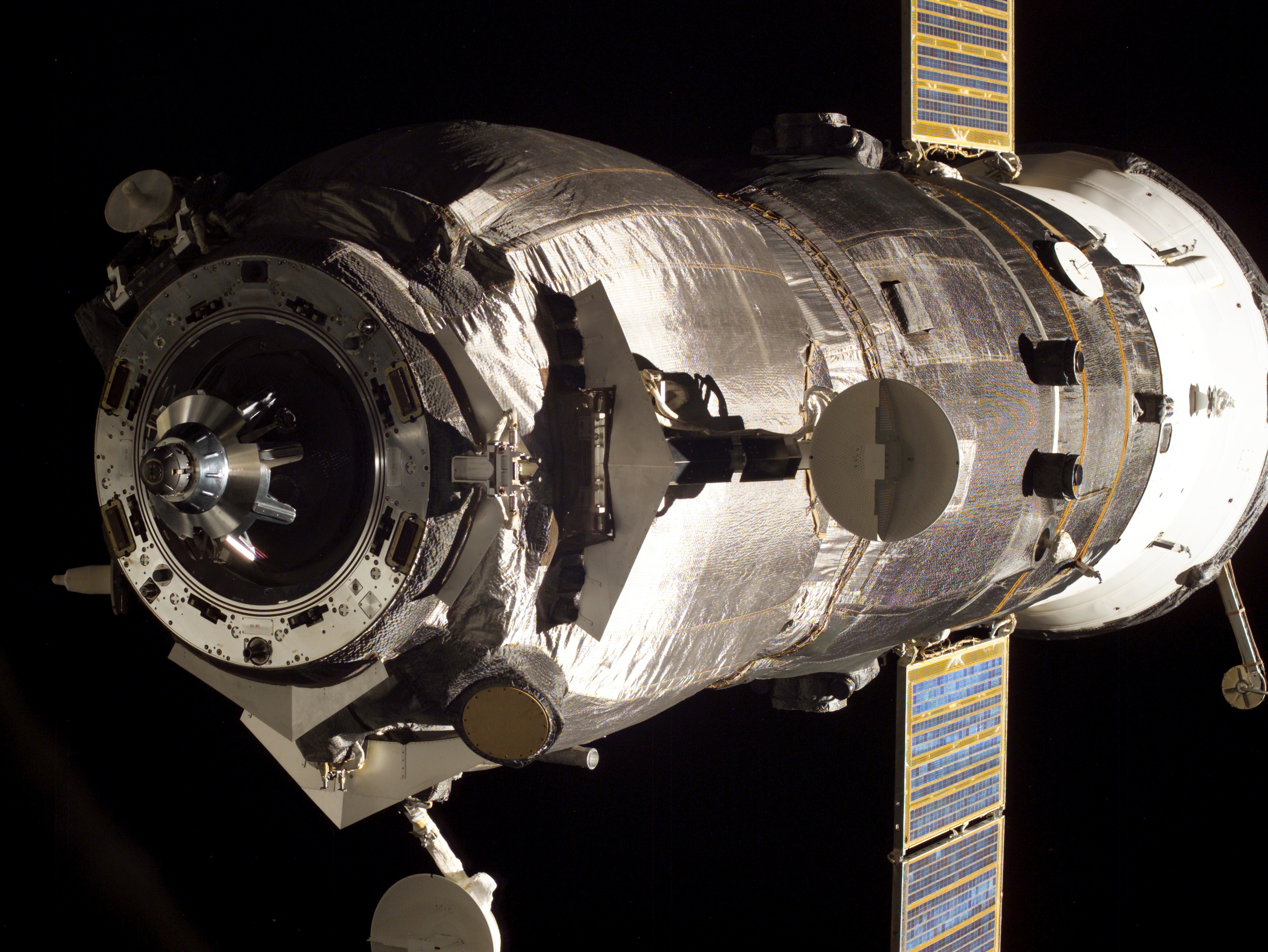 ISS013-E-38937 (19 June 2006) --- Backdropped by the blackness of space, an unpiloted Progress 20 supply vehicle departs from the Pirs Docking Compartment of the International Space Station on June 19, 2006, carrying its load of trash and unneeded equipment to be deorbited and burned up in Earth's atmosphere. The undocking clears the way for the arrival of a new Progress 22, planned to launch June 24 and dock with the station on June 26.